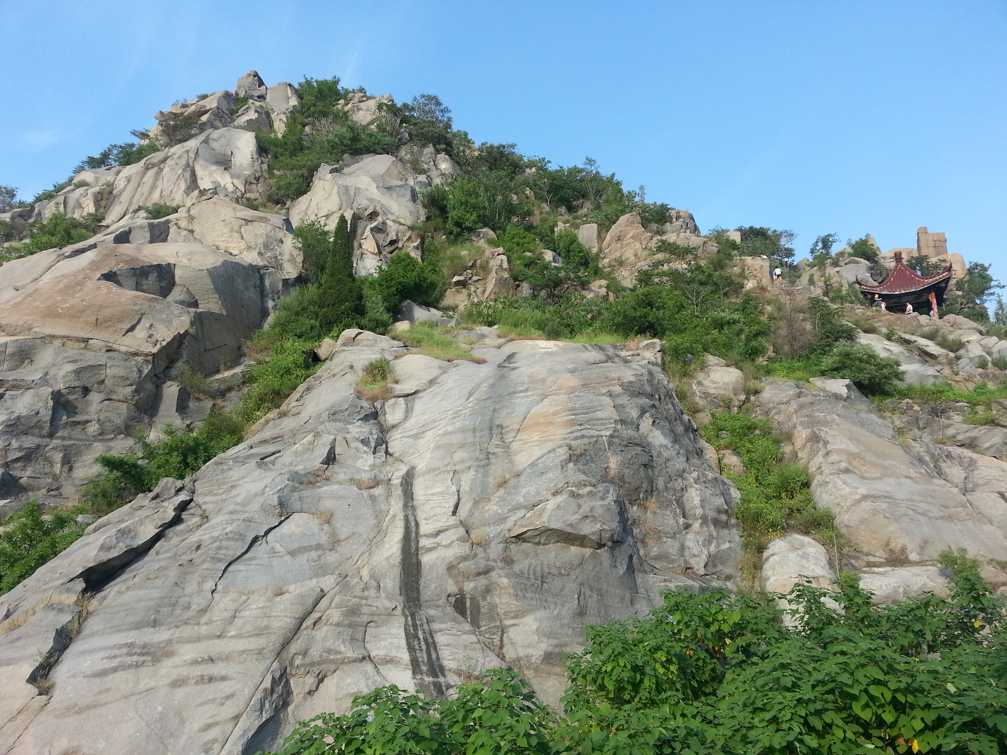 Photograph of cliffs on the southern flank of Que Hill, Jinan, Shandong, China.